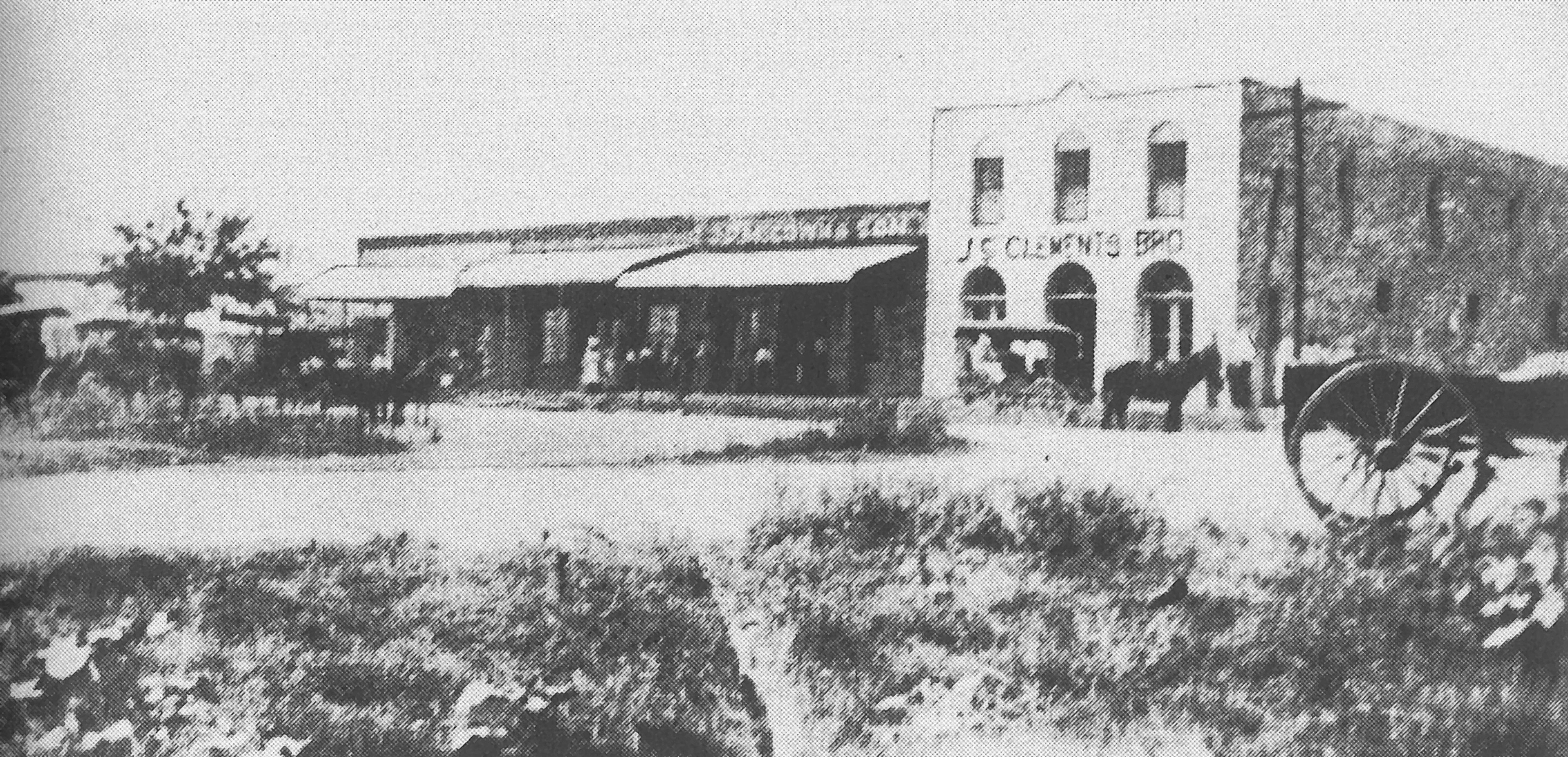 shot of downtown Copperas Cove, circa 1905, Avenue D